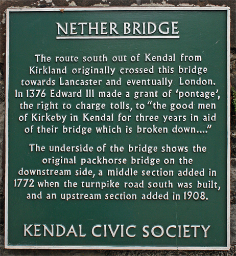 Nether Bridge - @Kirkland, Kendal - 'Nether Bridge. The route south out of Kendal from Kirkland originally crossed this bridge towards Lancaster and eventually London. In 1376 Edward III made a grant of 'pontage', the right to charge tolls, to "the good men of Kirkeby in Kendal for three years in aid of their bridge which is broken down ..." The underside of the bridge shows the original packhorse bridge on the downstream side, a middle section added in 1772 when the turnpike road south was built, and an upstream section added in 1908.' by Kendal Civic Society ( ID=11511)